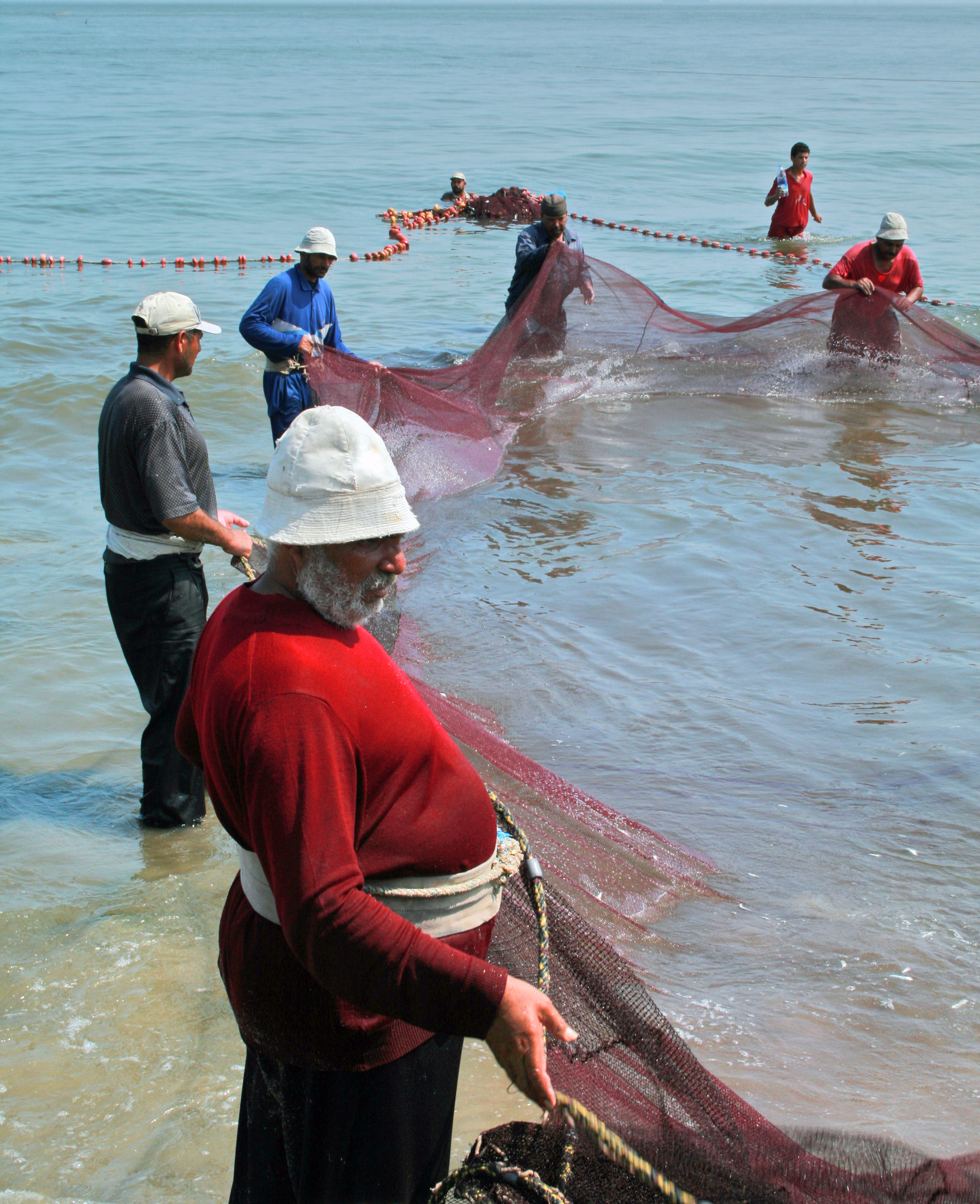 Fishermen in Manzala Lake, Egypt This is an image of "African people at work" from Egypt